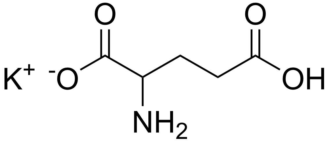 Chemical structure of Monopotassium glutamate (potassium glutamate)